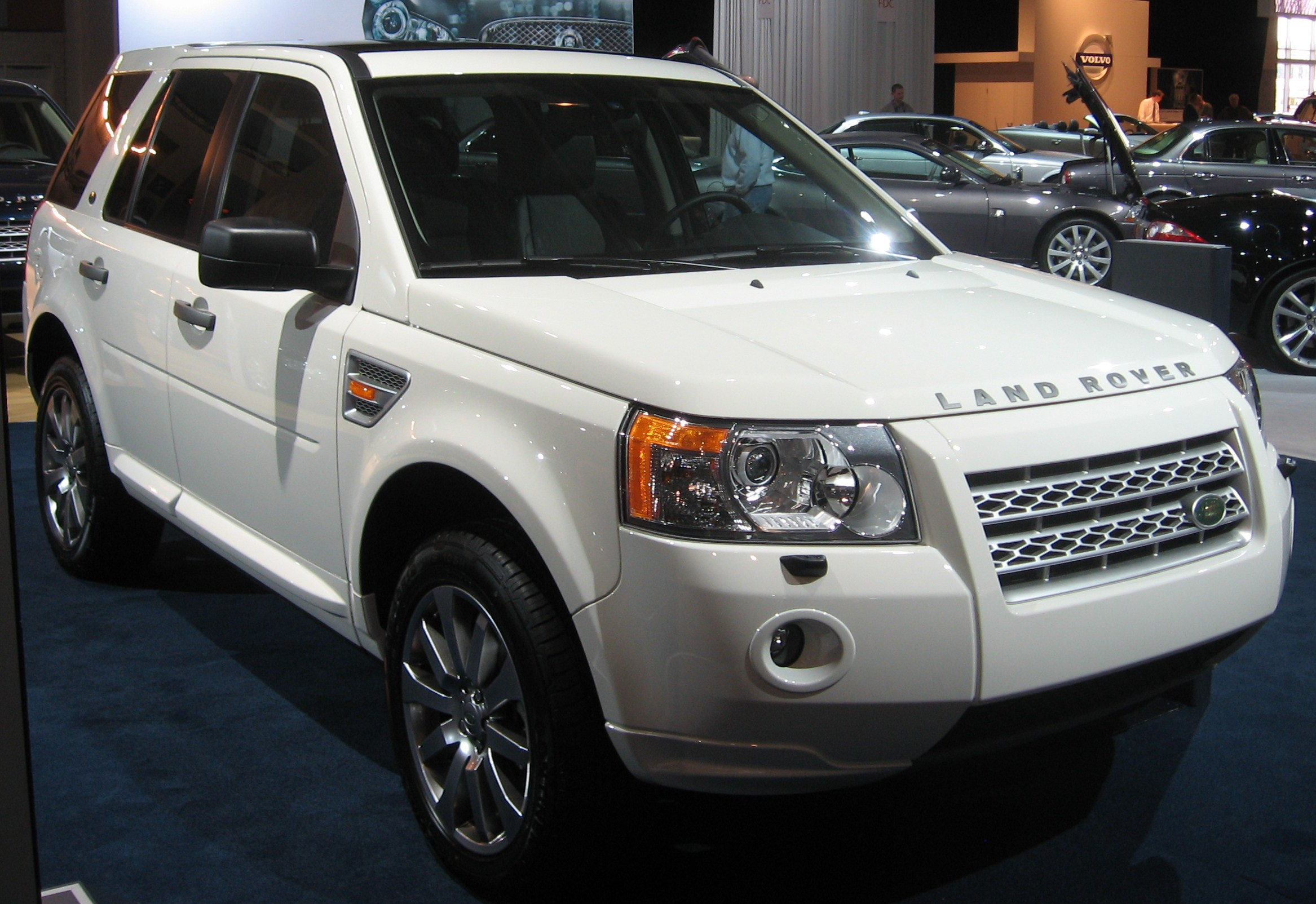 2008 Land Rover LR2 photographed at the 2008 Washington DC Auto Show.